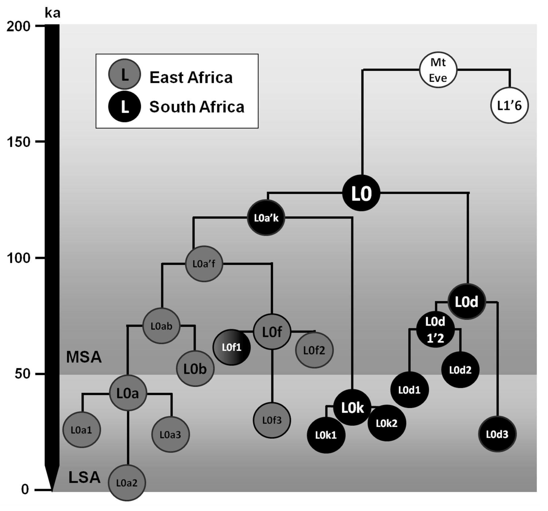 Schematic tree of haplogroup L0 and the root of the human mtDNA diversity. The tree is scaled against the maximum likelihood (ML) age estimates (in ka, thousand years ago). Colour scheme for each clade indicates the probable geographic origin (eastern or southern Africa). MSA: Middle Stone Age, LSA: Later Stone Age.